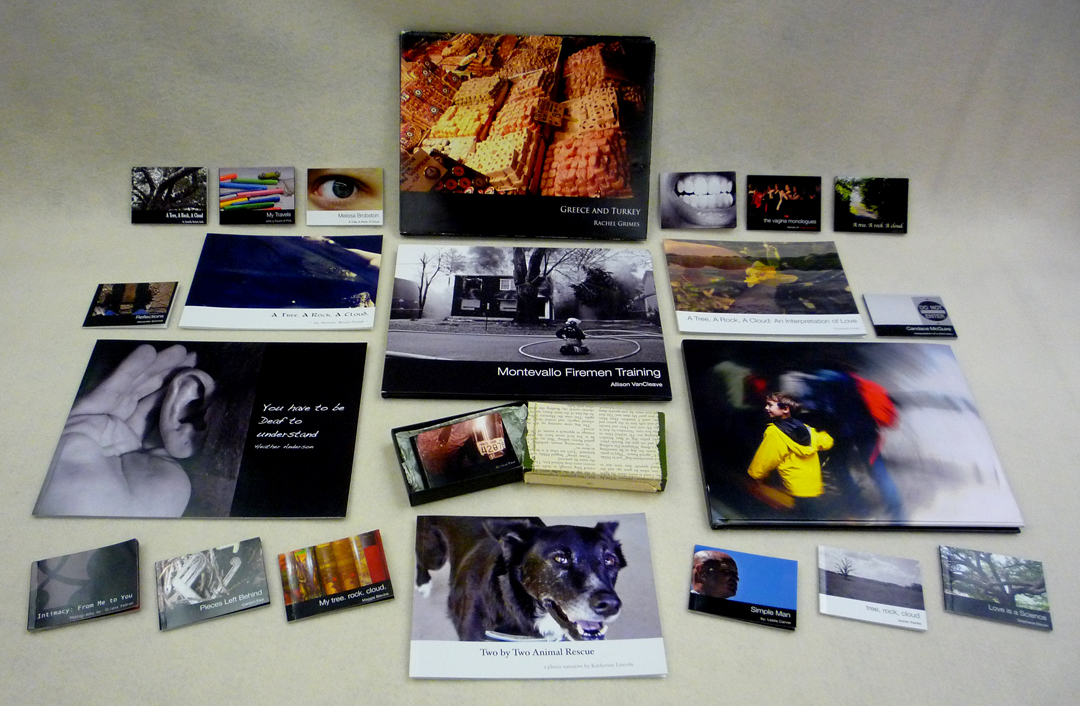 Student Book Art Exhibition and Reception Carmichael Library, in cooperation with the Department of Art, presents a display of photographic books made by University of Montevallo Art Students. The books were made by the students of Karen Graffeo who took part in Art Department Travel Abroad courses to Italy, Turkey and Greece. In addition, some of these works were produced by students enrolled in Photo I and Documentary Photography courses. The assigned projects required the student to take a journey, or to explore a cultural topic, as well as being required to do a visual sequence of photographs in response to the Carson McCullers story "A Tree, A Rock, A Cloud". The books were produced using the iPhoto software program. The following students have books in this display: Heather Anderson, Maggie Blevins, Melissa Brobston, Leslie Carver, Rachel Crisson, Carolyn Fain, Lauren Franks, Rachel Grimes, Elizabeth Gross, Sky Johnson, Katherine Lincoln, Jameilia Little, Faza Malik, Elizabeth Minyard, Janessa Mobley, Stephanie Moceri, Oriana Padron, Michael Price, Hannah Ronan-Daniell, Alexander Schmidt, and Allison Vancleave